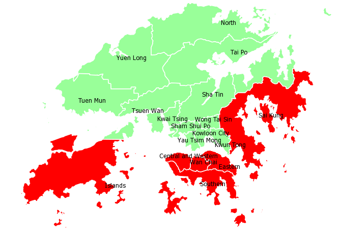 The suburbs that are highlighted in red are popular expat residential areas. Expats generally reside in outlying islands and the Hong Kong Island.